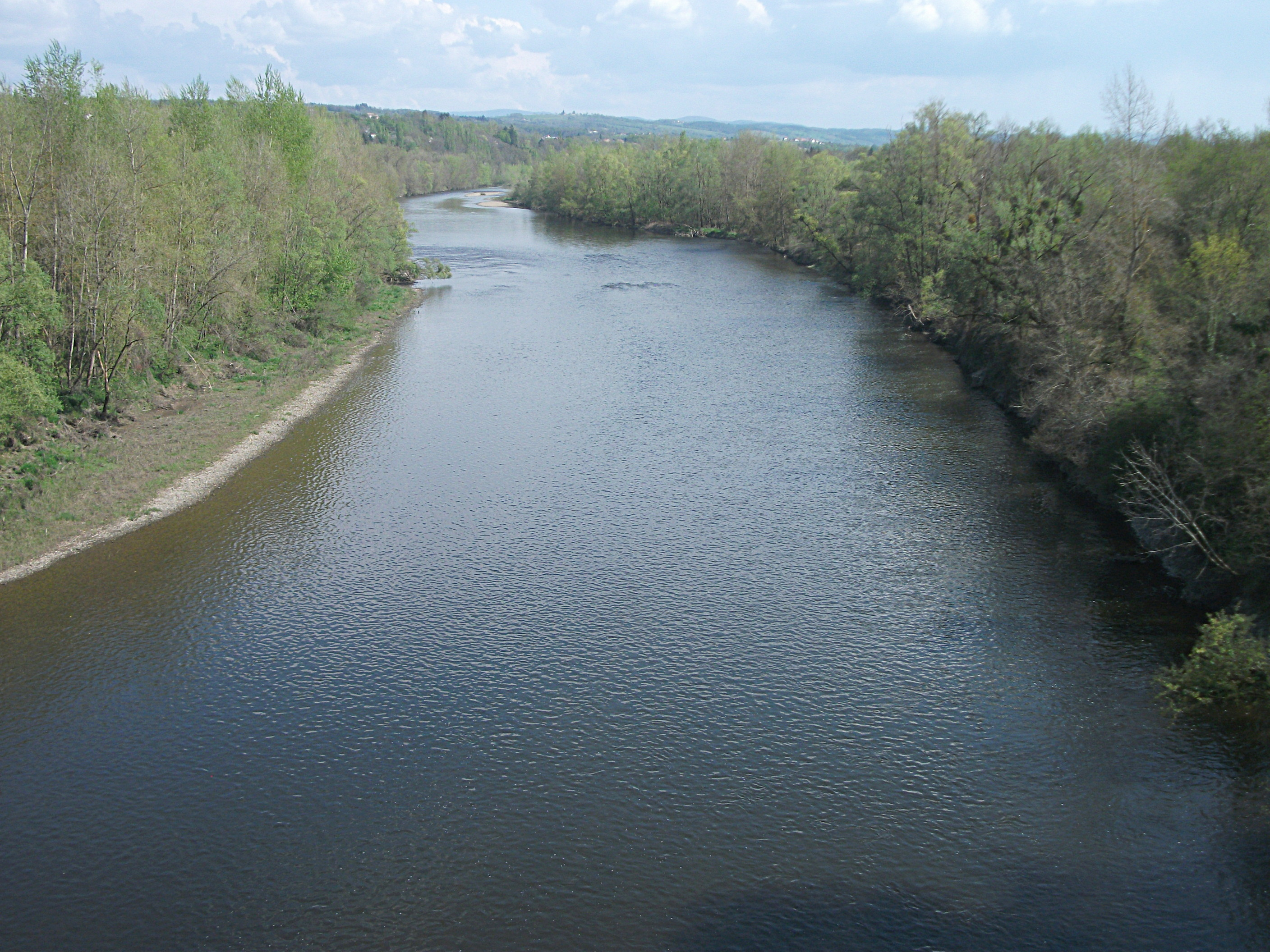 Allier River from Abrest viaduct (Allier, Auvergne-Rhône-Alpes, France). [18128]